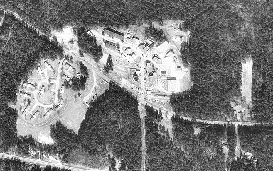 USGS orthophoto of Eufaula Air Force Station, Alabama